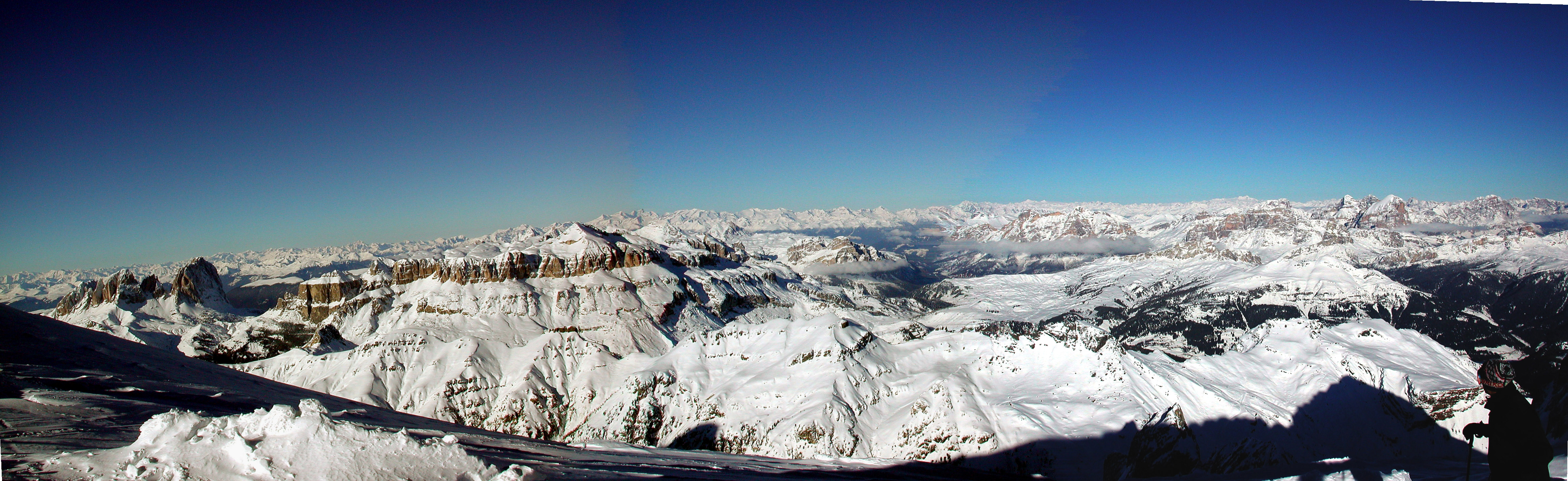 The eastern Dolomites seen from the top of Marmolada. In the center the Sella Group.